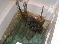 Modern Mikvah.